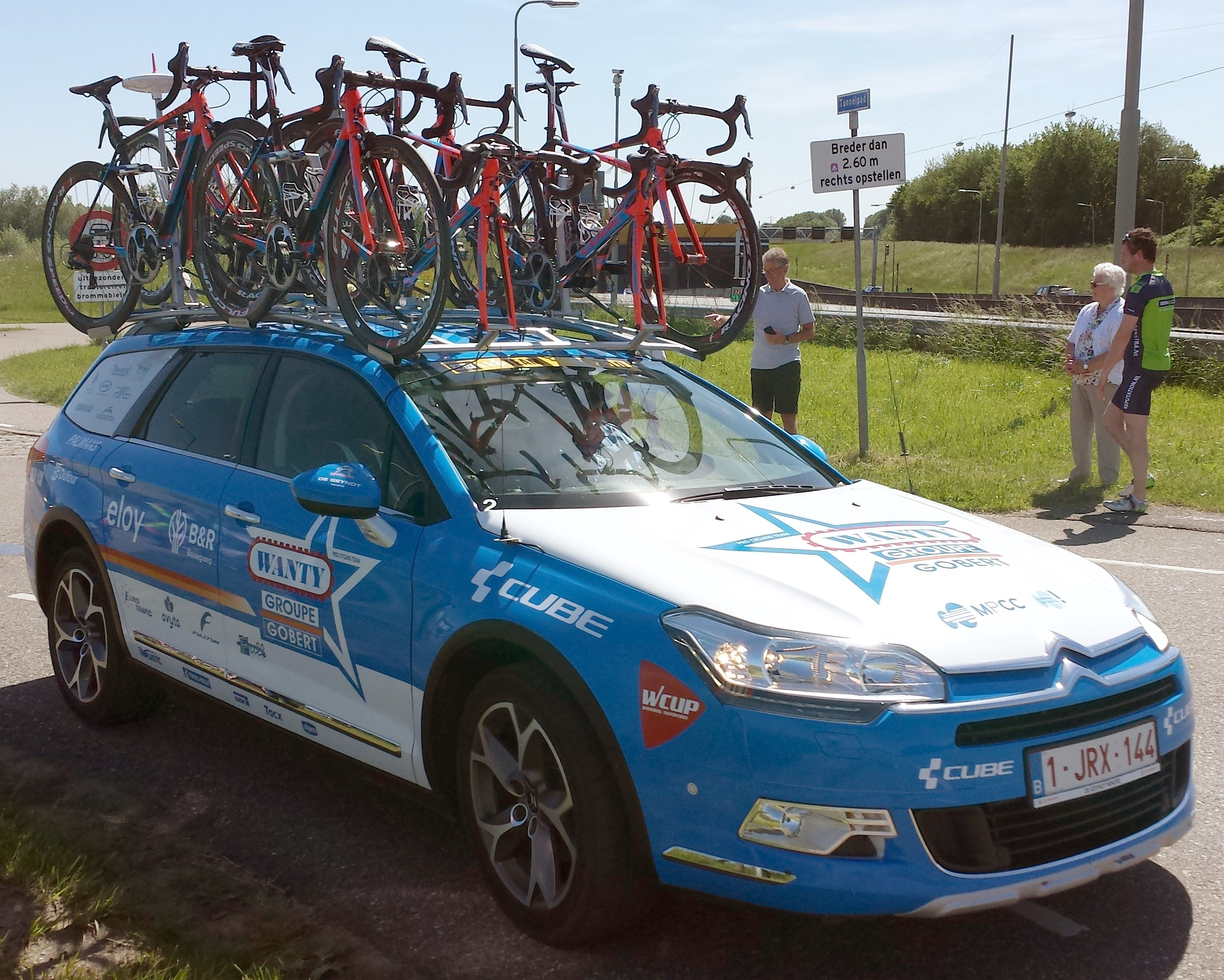 Wanty car at the World Ports Classic 2015